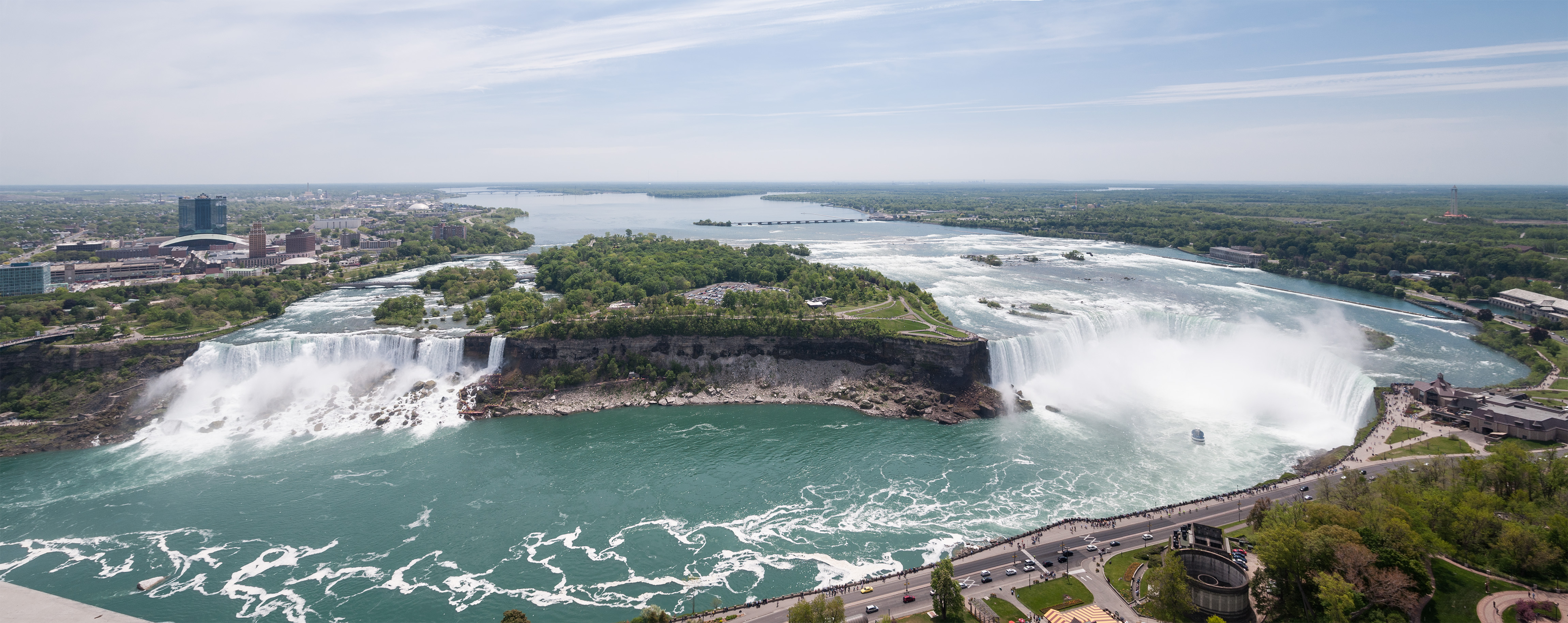 Niagara Falls seen from Skylon Tower, left: Bridal Veil (USA) and on the right side Horseshoe Falls (Canada).